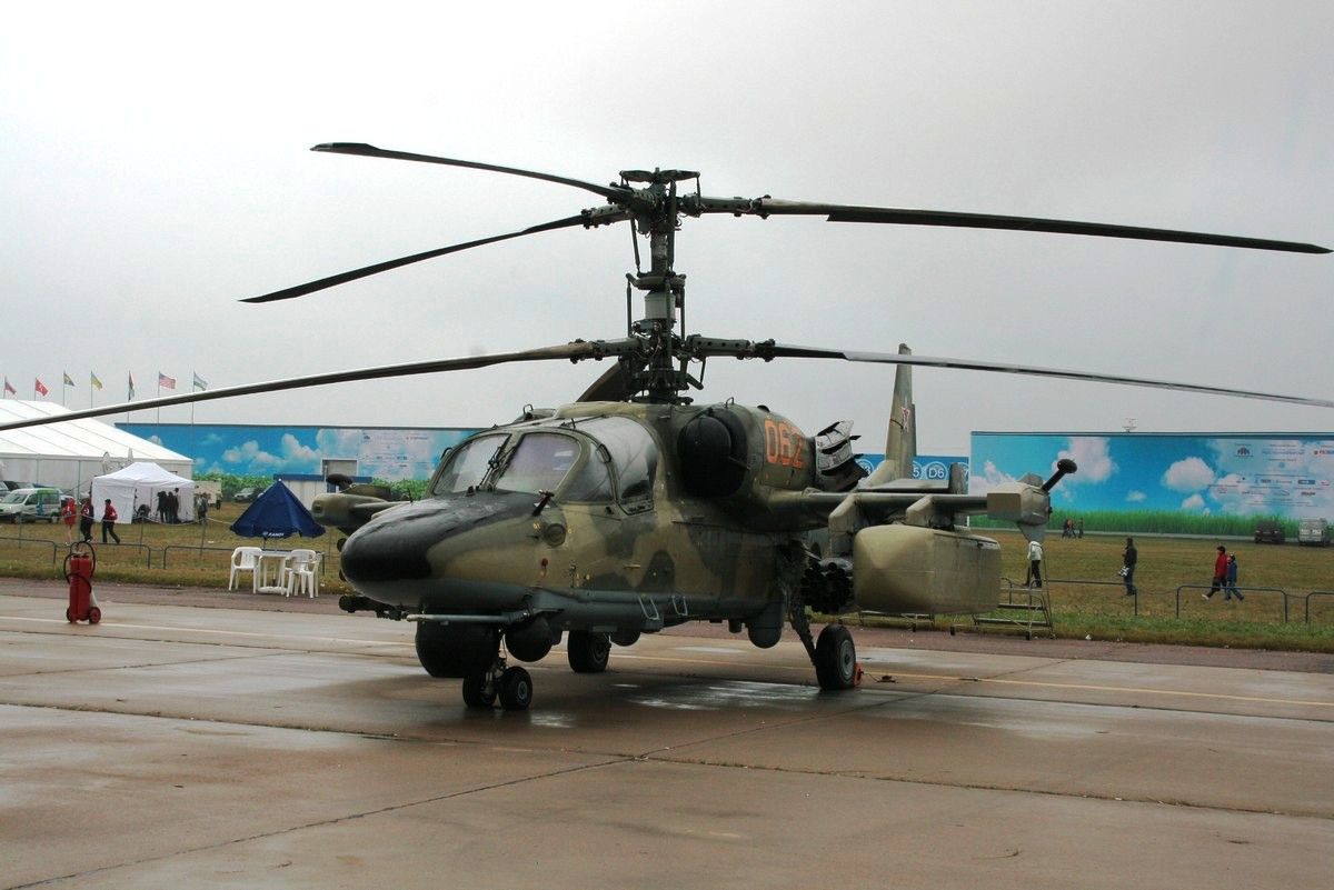 Kamov Ka-52 Alligator at the MAKS 2009 Airshow.